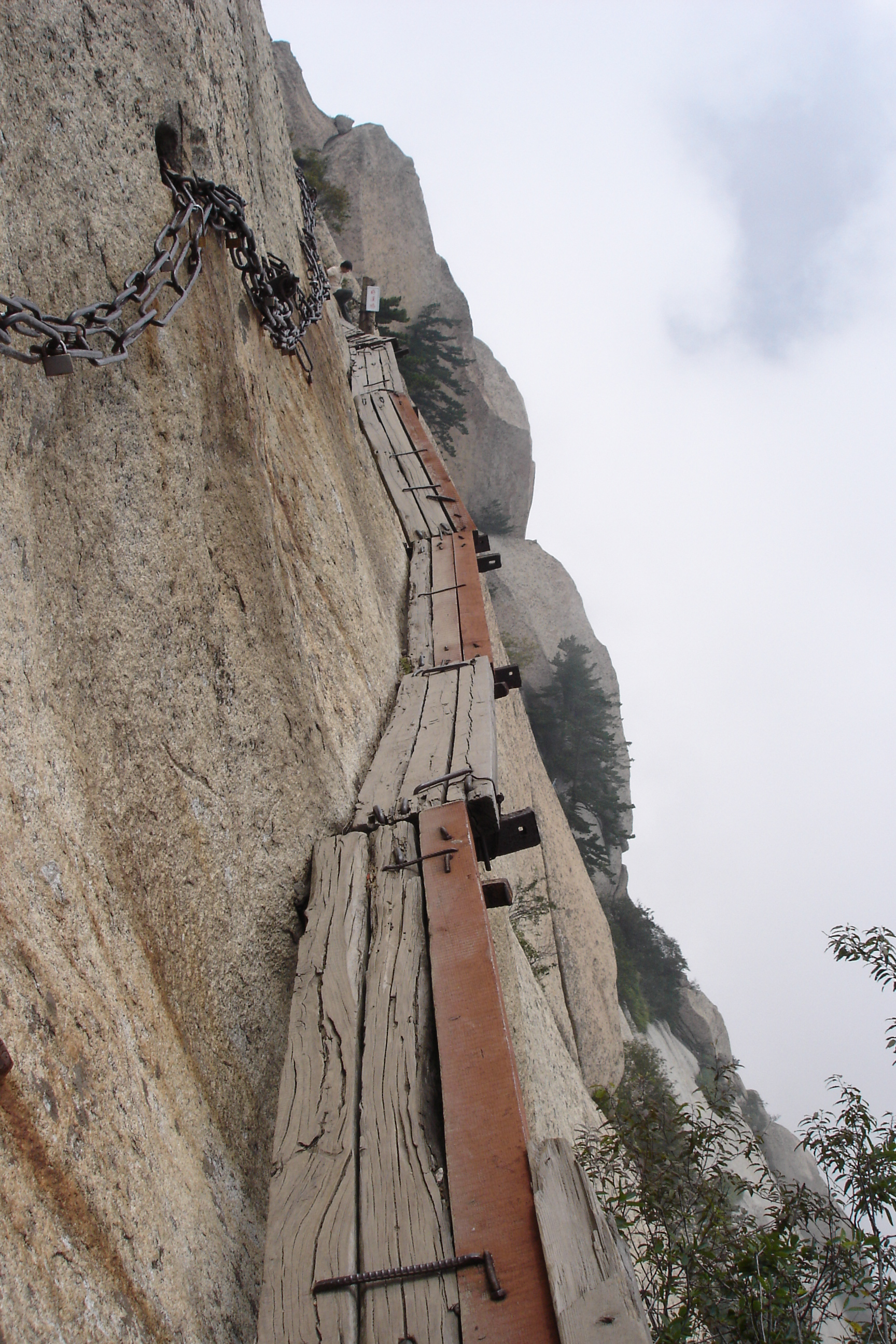 Thousand feet cliff of the Hua Shan (Shaanxi, People's Republic of China).